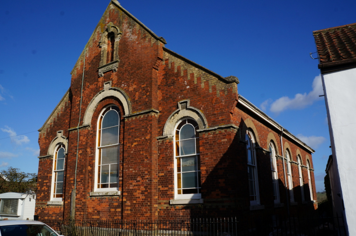 Former Chapel, Binbrook